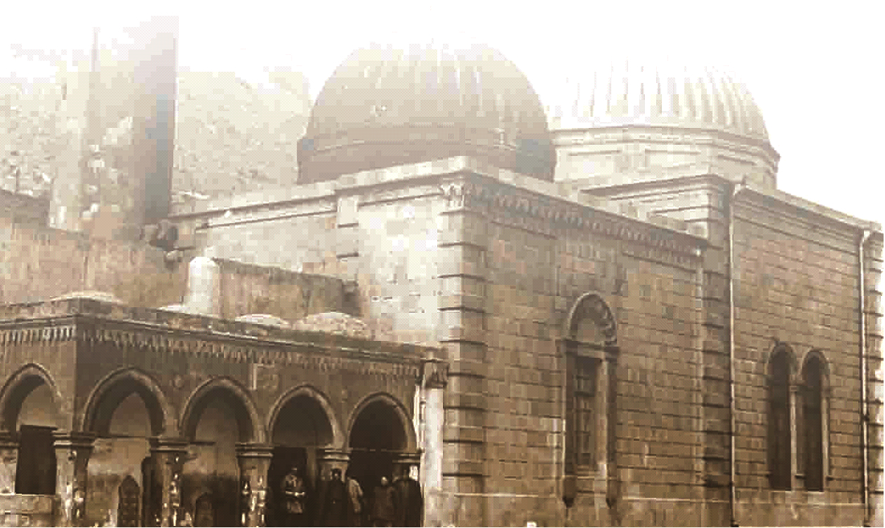 Bibi-Eybat mosque in Baku